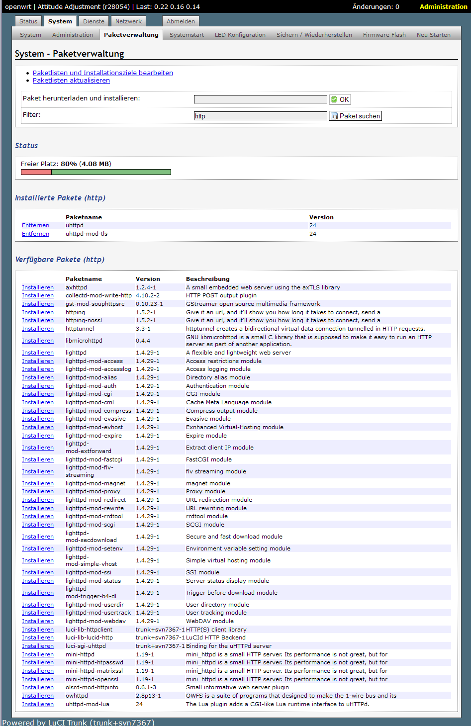 screen shot of LuCI web interface for OpenWrt (trunk), package management overview, german